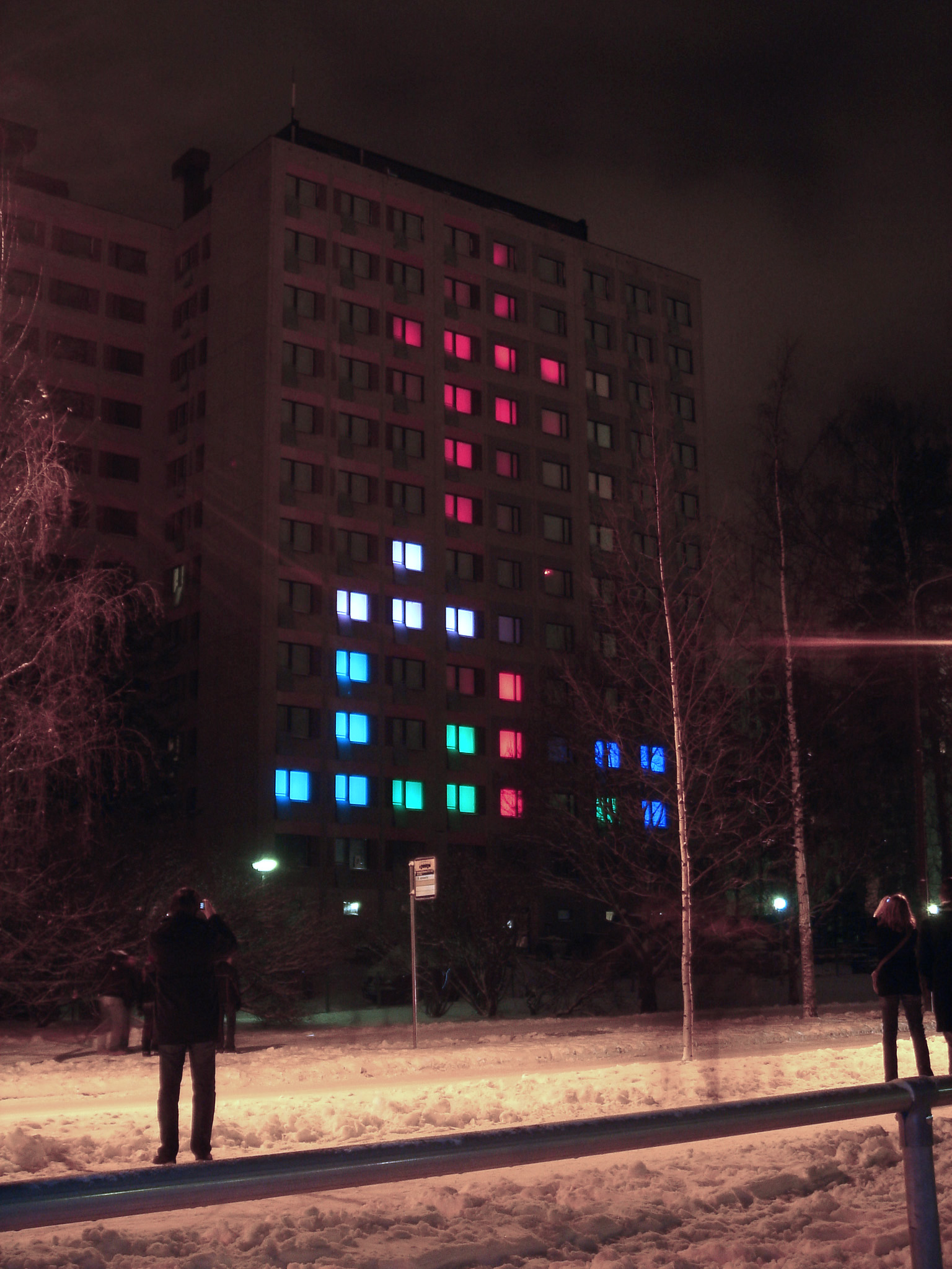 A Photo of MIKONTALOLIGHTS event. The object of MIKONTALOLIGHTS project was to create the world's physically largest colored graphics platform by using the windows of Mikontalo's D-staircase as light pixels. The platform is used to play Tetris and other games and present demos created by the students of Tampere University of Technology. The project will climax on December the 4th when the new lights of Mikontalo will be lit. The goal is to gain global visibility for Tampere University of Technology and the rich student culture of Tampere.